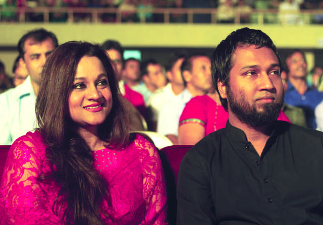 Farzana Munny owner of Que Bella and Taposh Kaushik Hossain Managing Director of Gaan Bangla (TV channel)